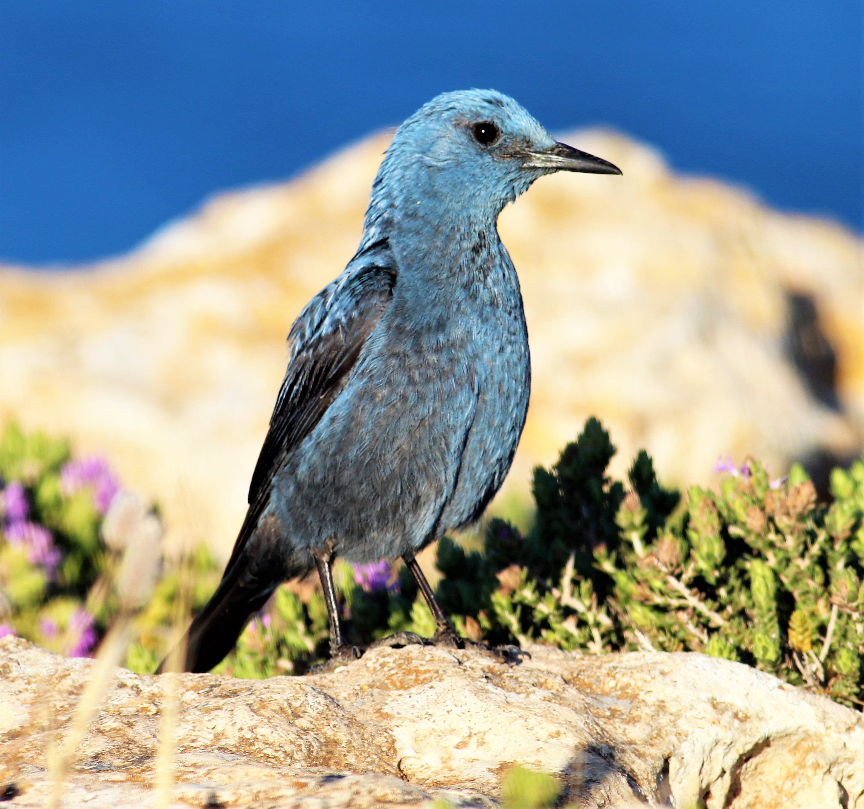 Blue Rock Thrush, Il-Majjistral Nature and History Park, Malta. Alex Casha Photography.